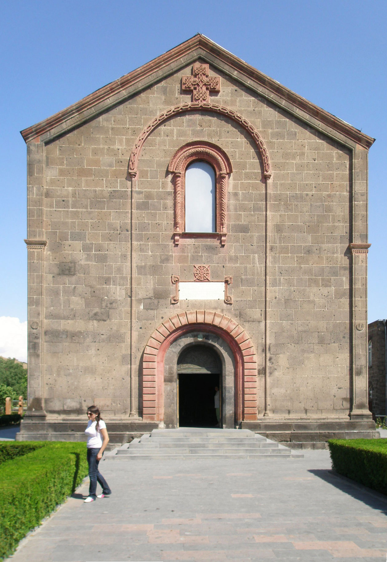 The front entry to Church of S. Mesrop Mashtots.